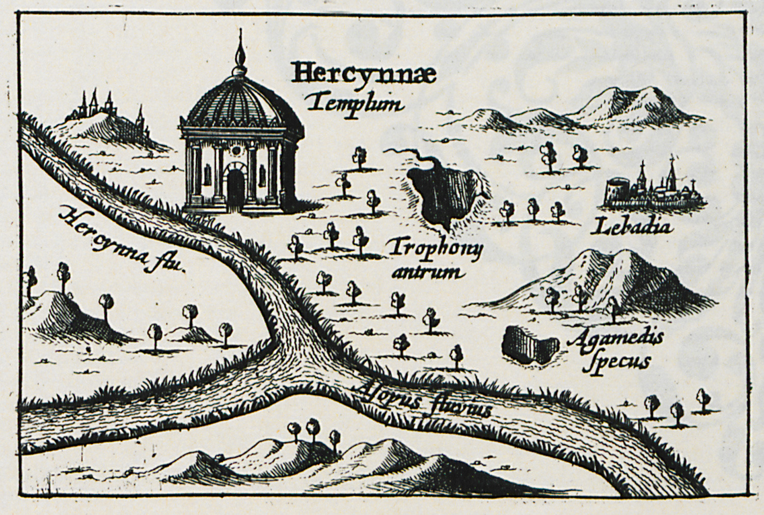 Map with Livadeia with the Trofonion oracle - Laurenberg Johann - 1661